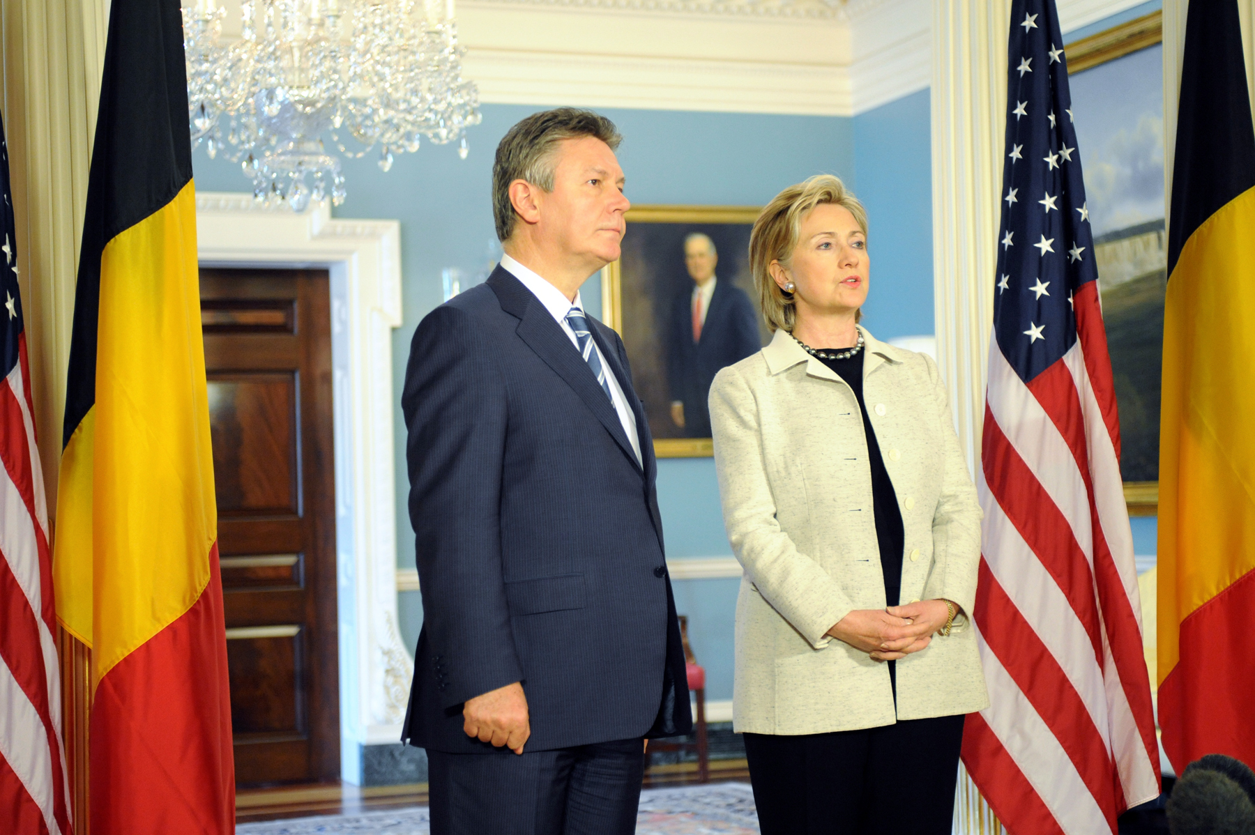 U.S. Secretary of State Hillary Rodham Clinton hosts a bilateral meeting with Belgian Deputy Prime Minister Karel De Gucht in the Treaty Room of the U.S. Department of State in Washington, DC May 22, 2009. [State Department photo by Michael Gross]